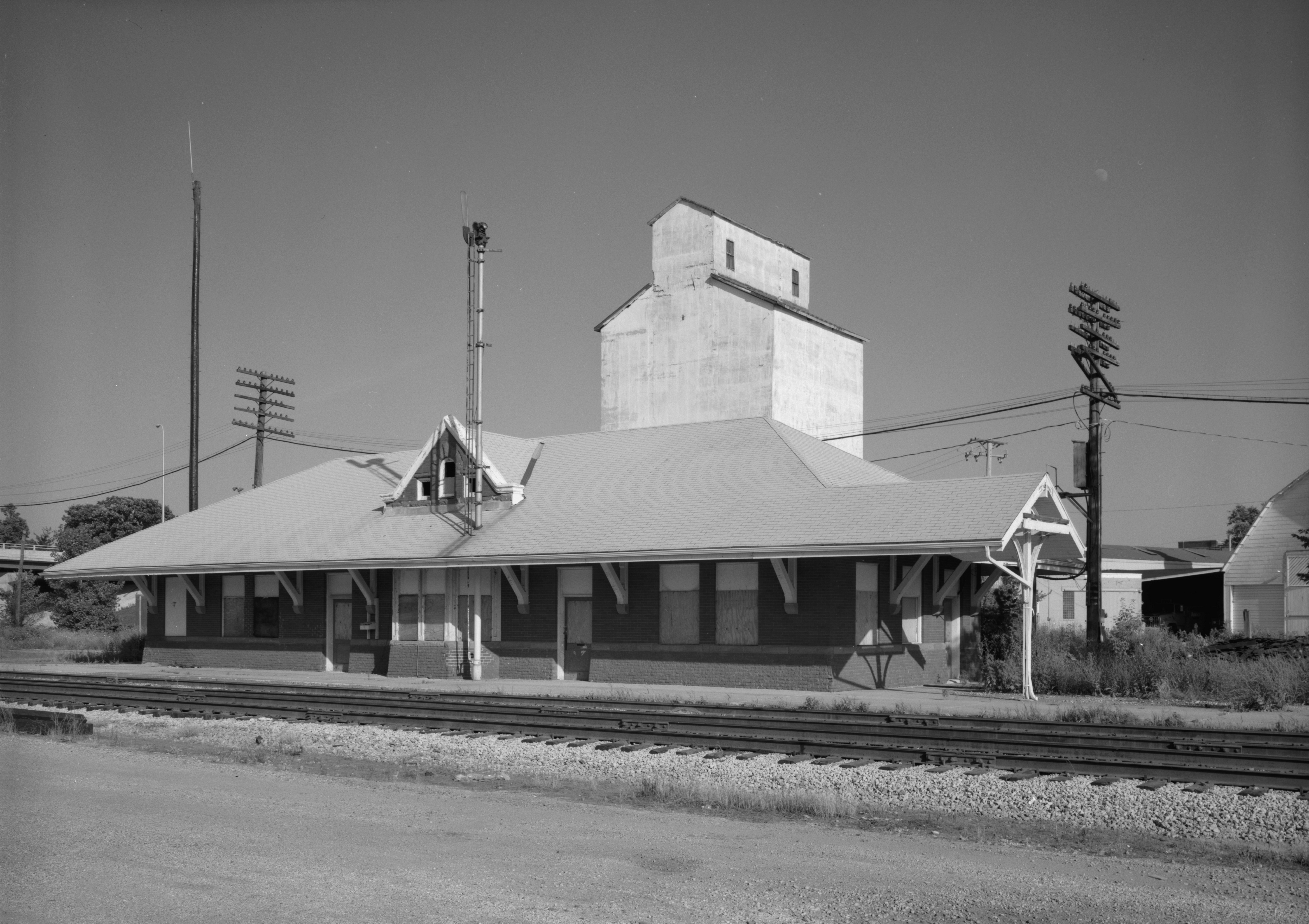 North facade of depot looking southwest